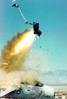 This photograph is of an ejection seat test in which a mannequin was blasted through the canopy of an F-15 during launch. It is the "doubletruck" page from the publication "Sunburst", "Serving the Holloman Air Force Base community", dated April 4, 2003. Page 8 of the magazine, at [1], states, "All photos used are U.S. Air Force photos unless otherwise indicated." The doubletruck photo is labeled "Courtesy photos".